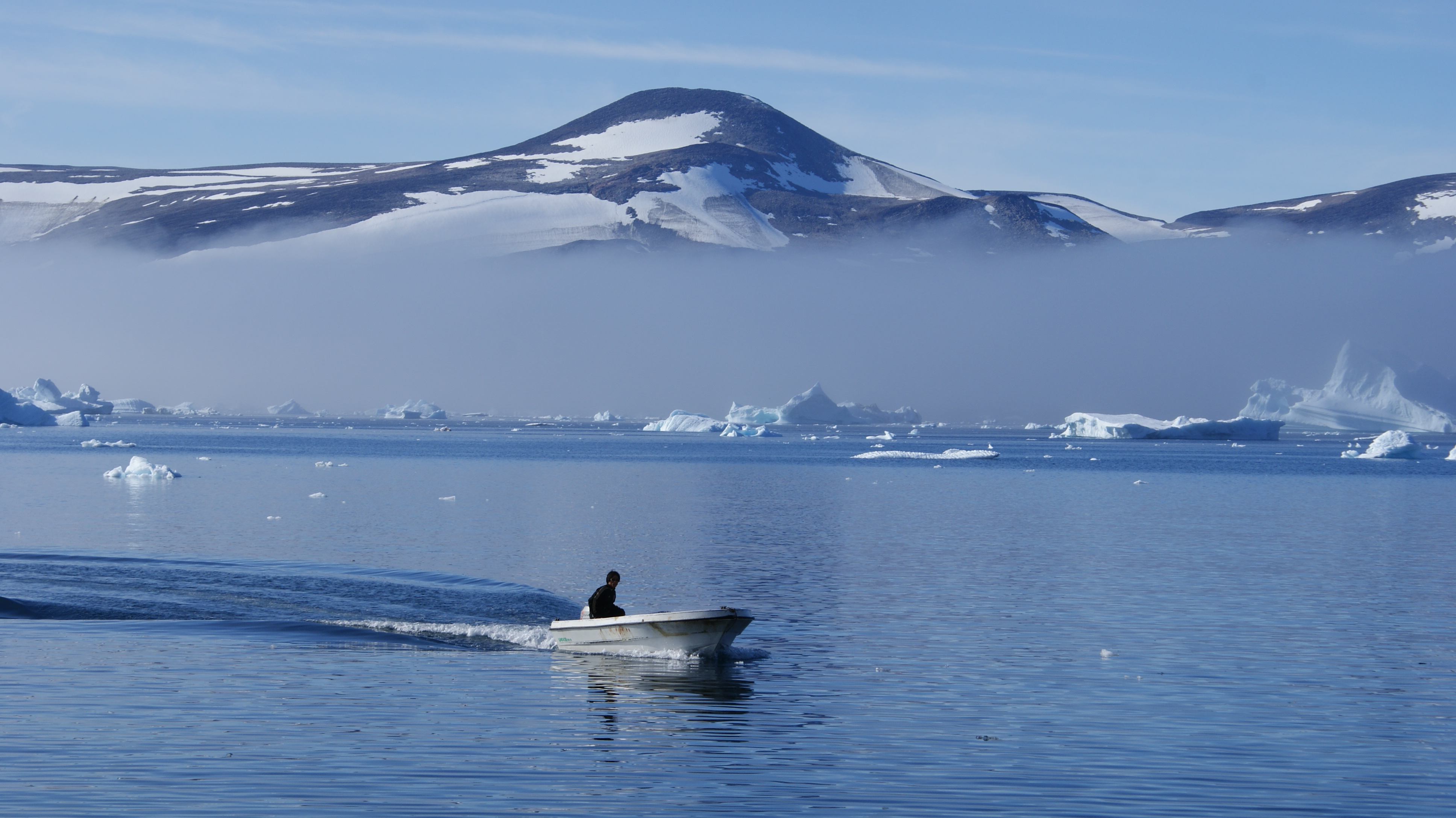 An Inuit hunting boat in southern Melville Bay, Greenland. Late morning fog and icebergs in the background.